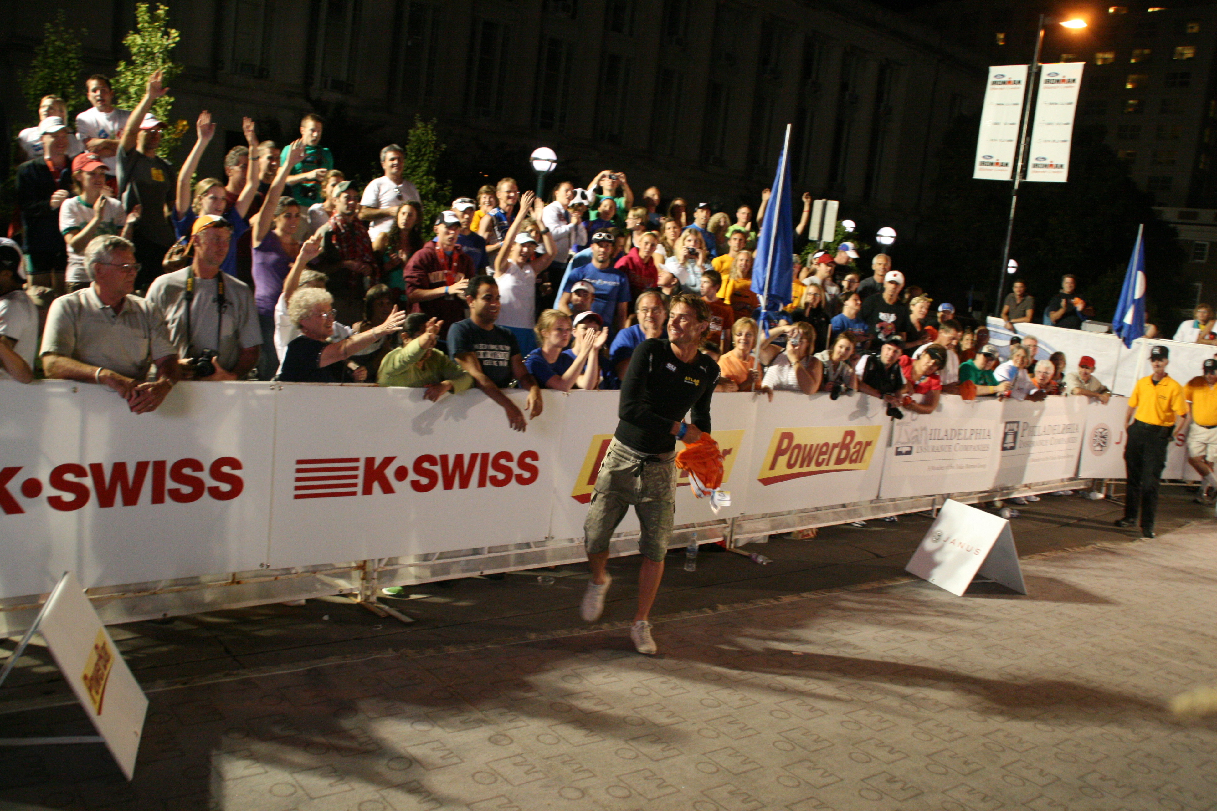 Raynard Tissink throws hats to the crowd at the Ironman Wisconsin finish line.